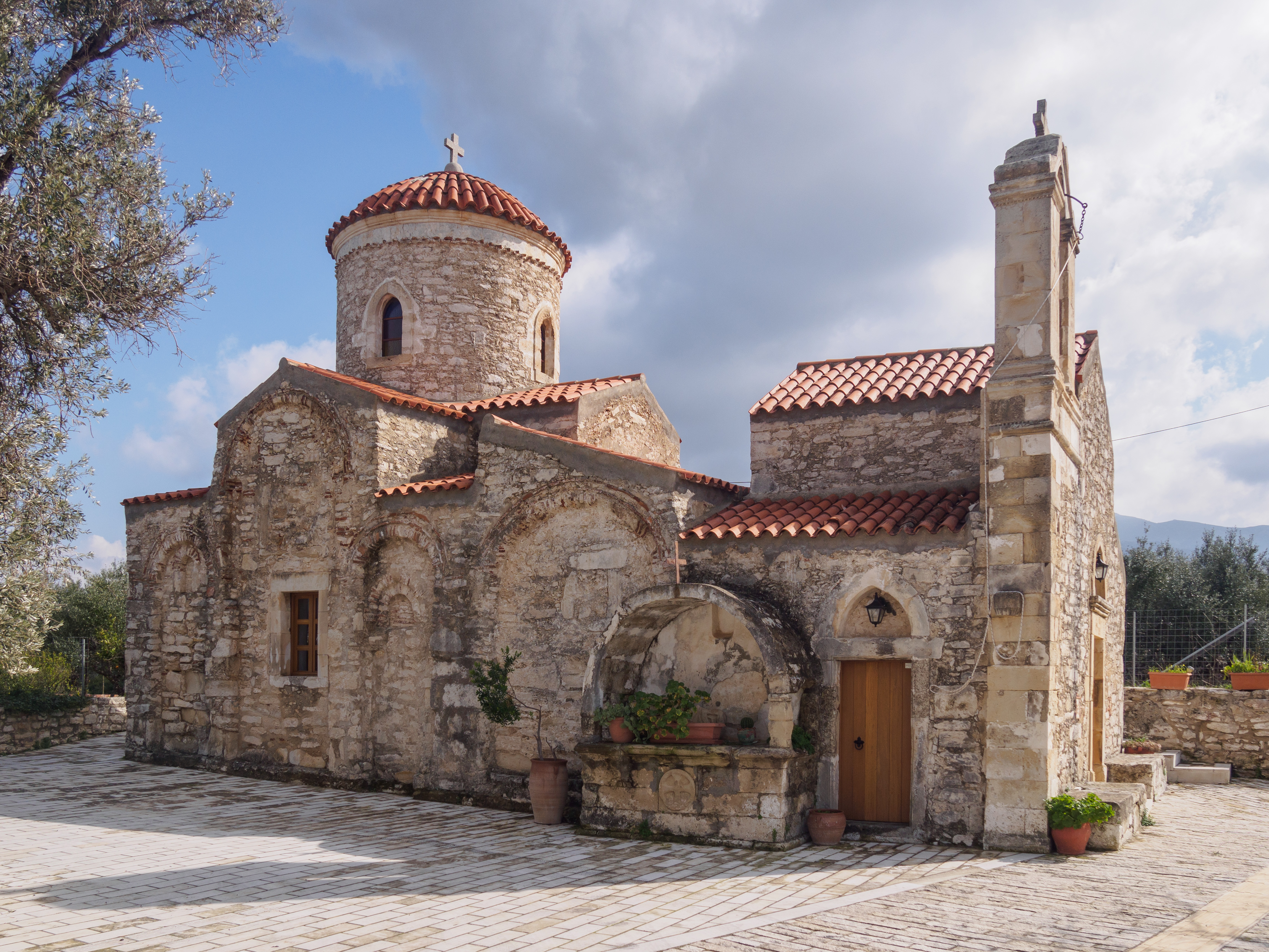 The church of Saint George at Kalama, Mylopotamos, with its characteristic shape.